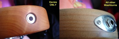 Difference between Davies and Washburn N4s - Jack